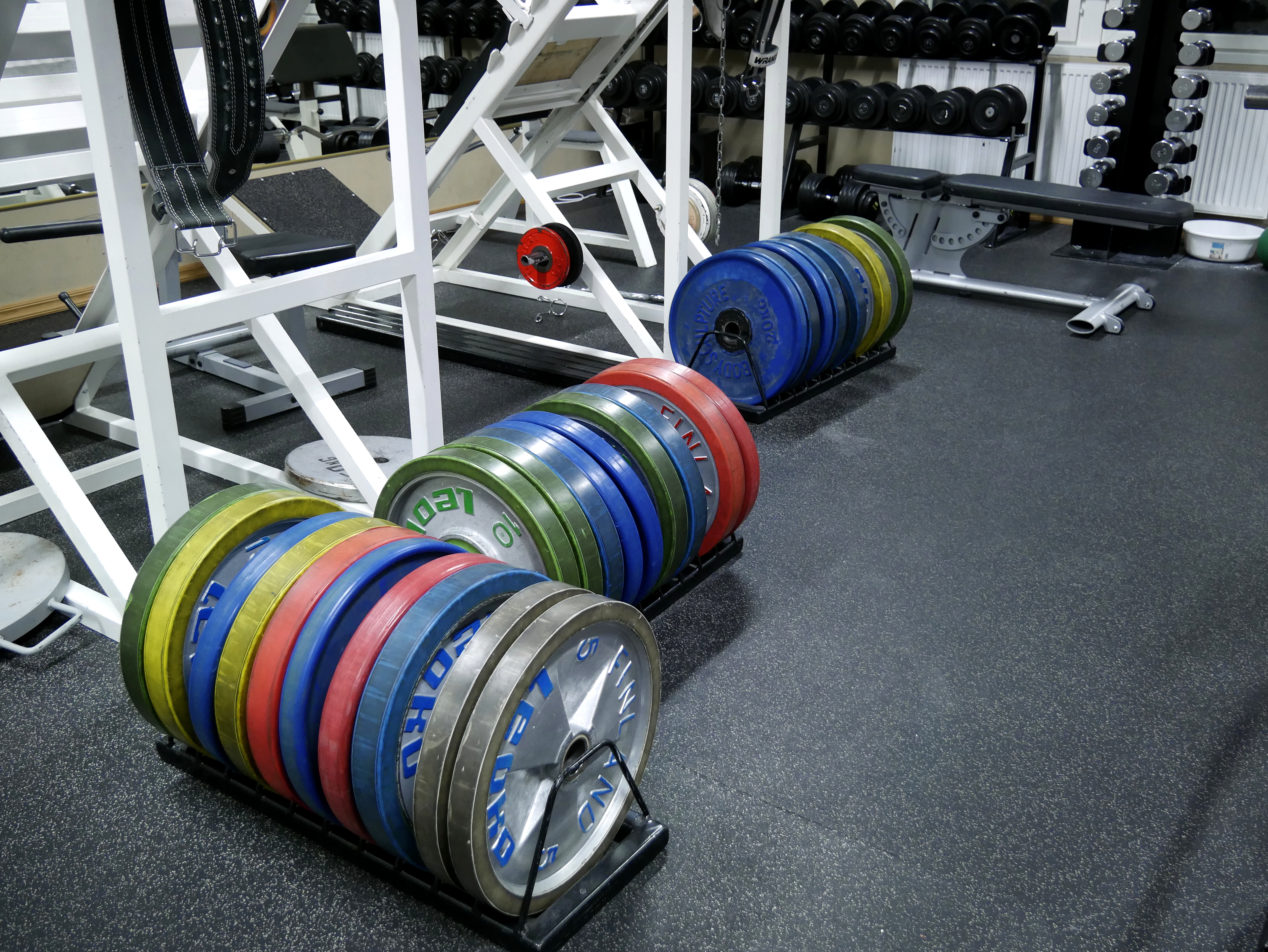 Weight plates in gym.